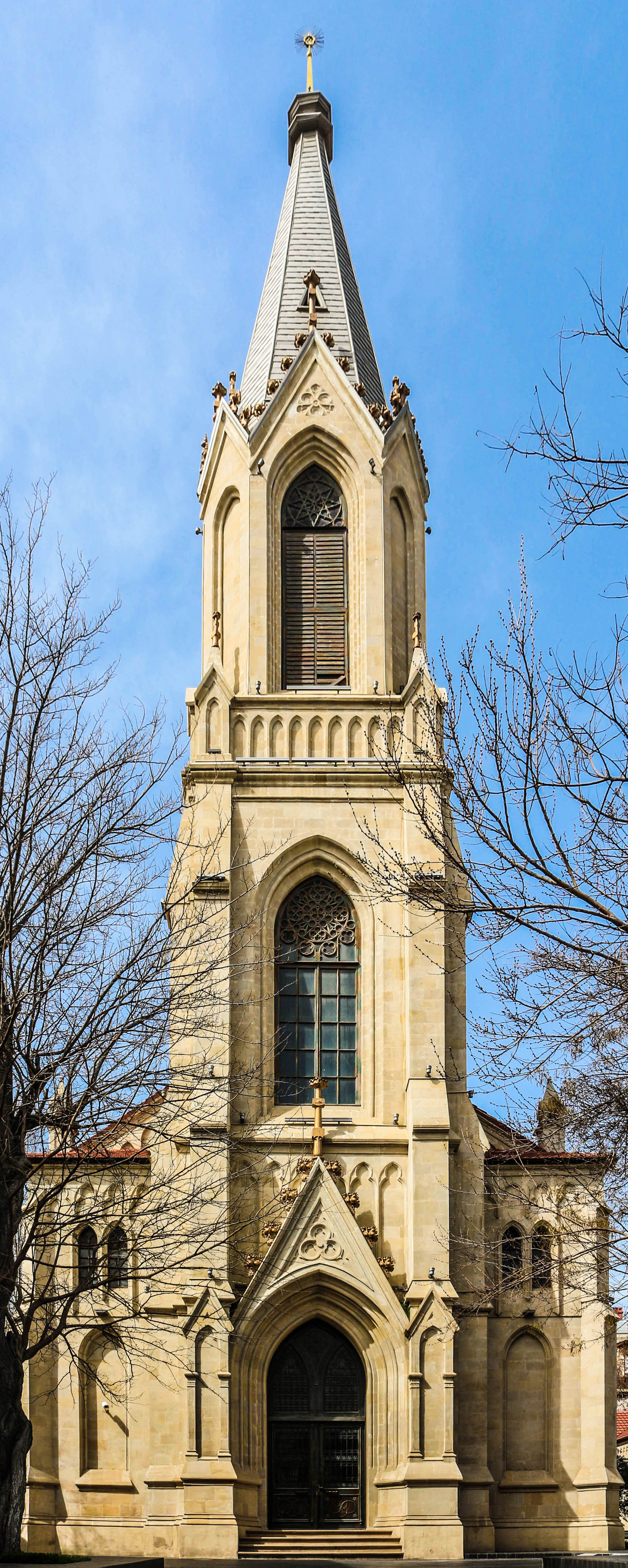 Church of Saviour in Baku